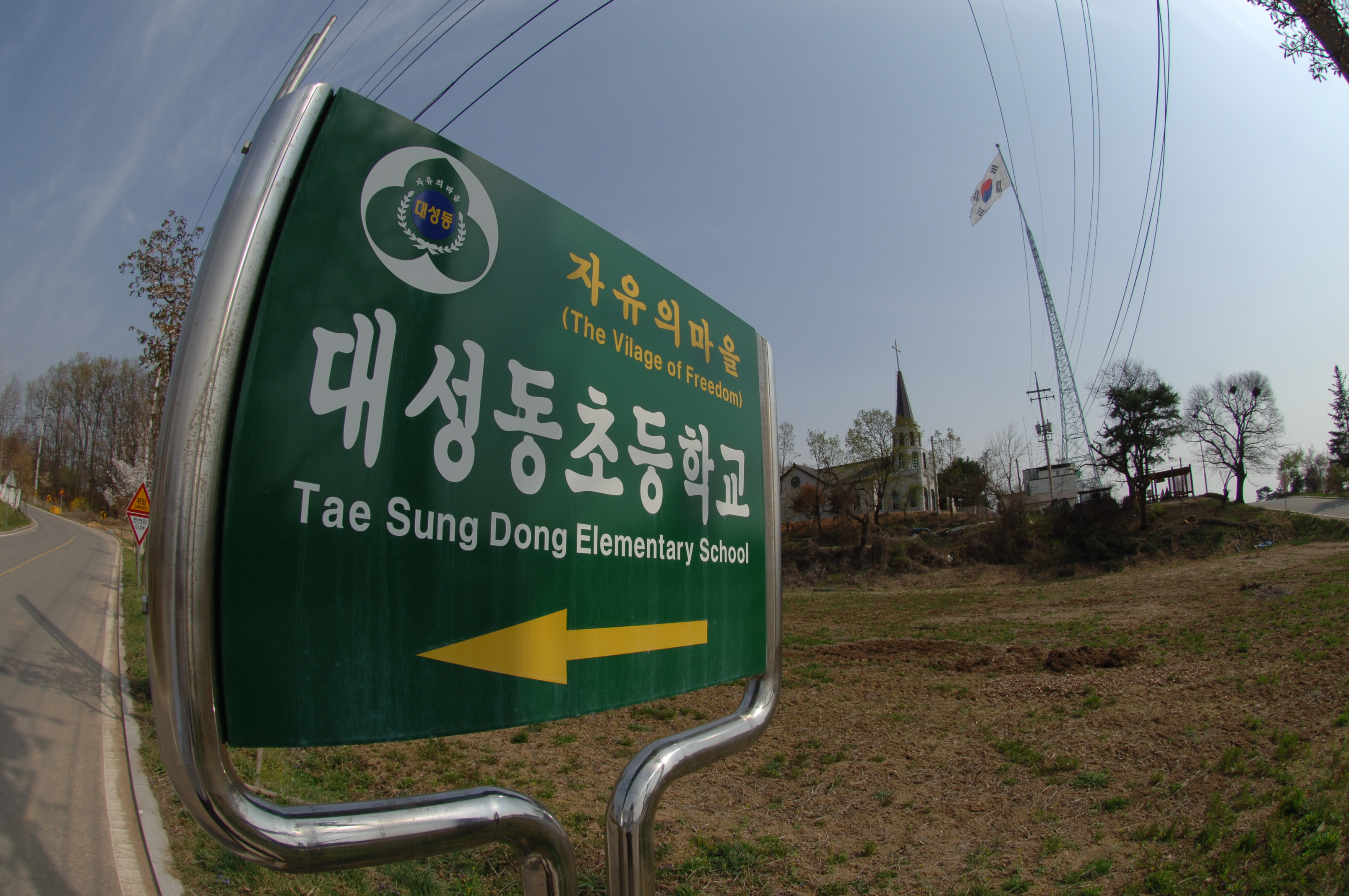 Daeseong-dong elementary school signpost